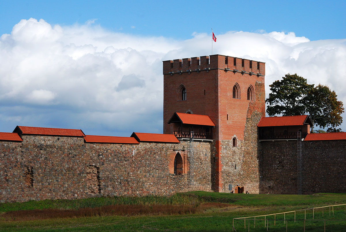 Medininkai Castle after reconstruction